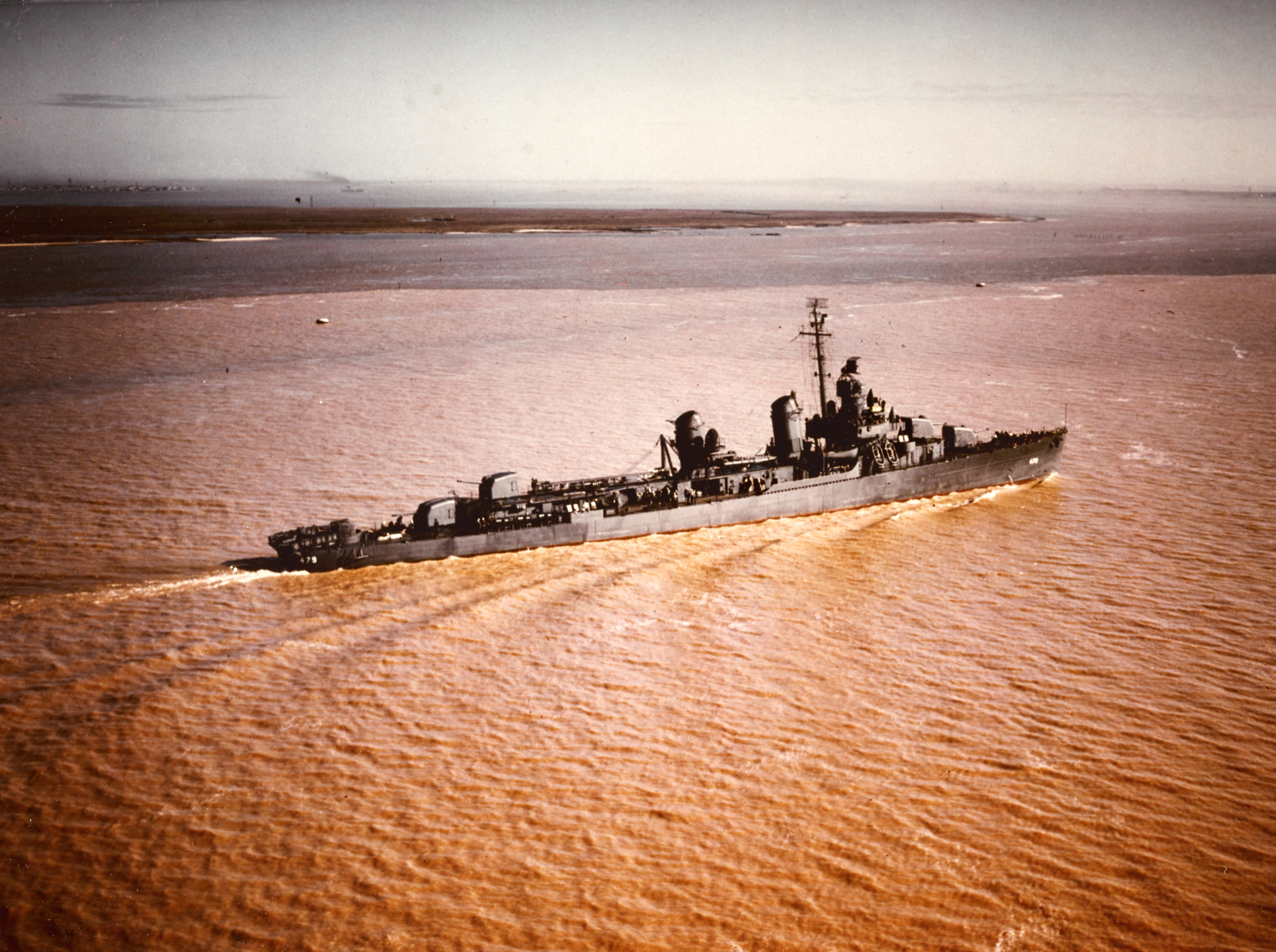 The U.S. Navy destroyer USS Stevens (DD-479) on the Cooper River, South Carolina (USA), heading to sea for shakedown exercises on 15 March 1943. Note the originally fitted aicraft catapult aft.